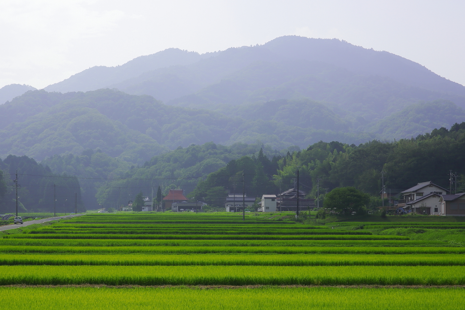 Mount Sanage as seen from the east.